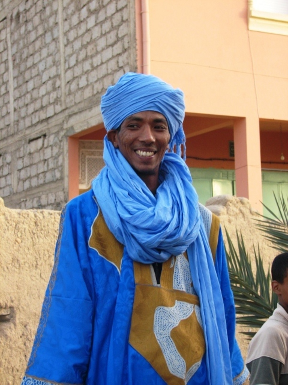 Tuareg - In Rissani Morocco ca. 2008